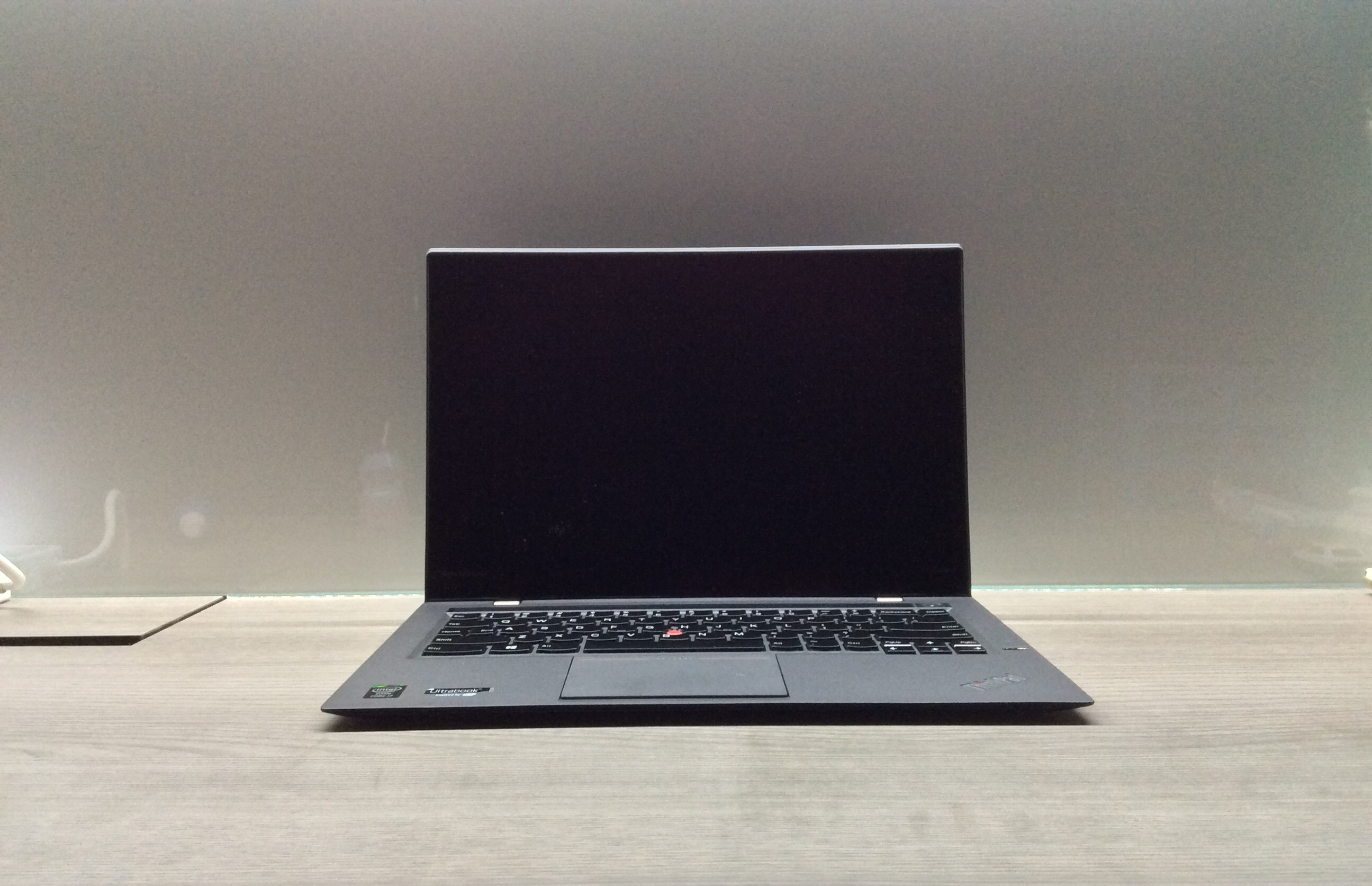 Lenovo ThinkPad X1 Carbon Ultrabook